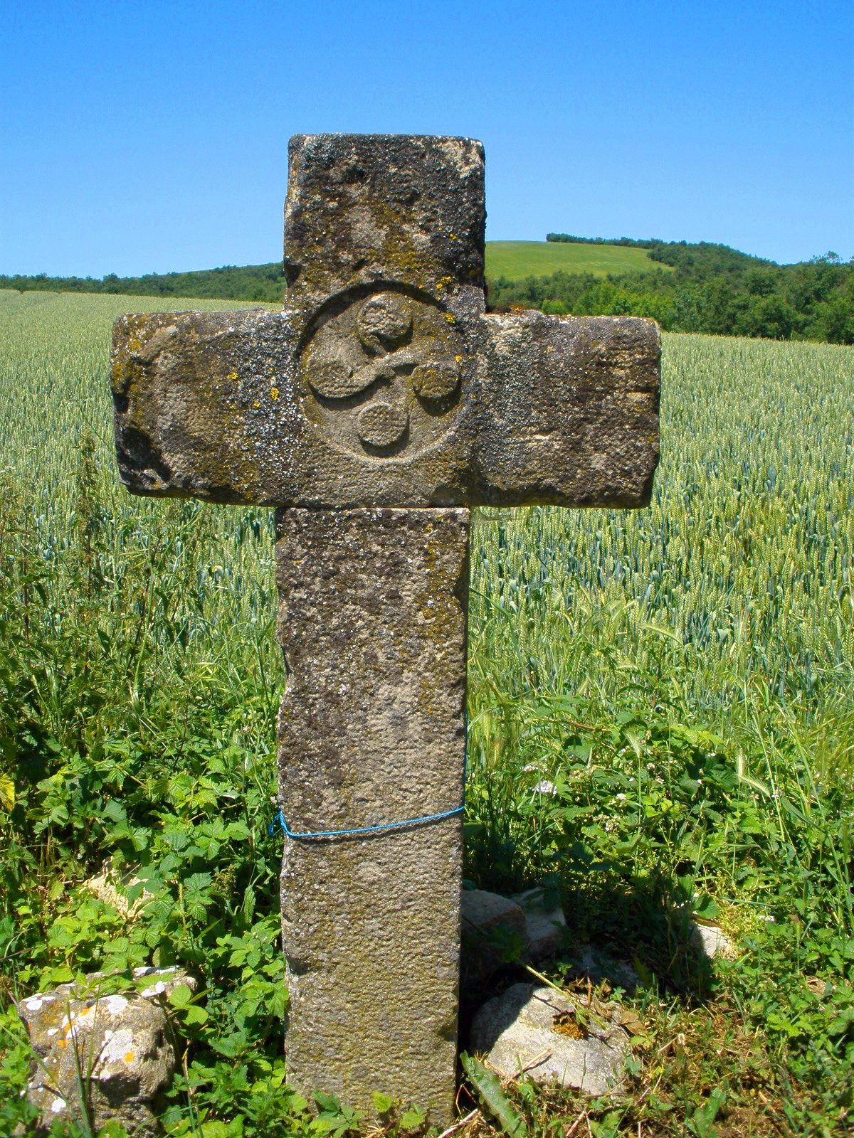 Cruz con lauburu en las inmediaciones del Santuario de N. S. de Ayala, Alegría-Dulantzi (Álava, País Vasco, España)